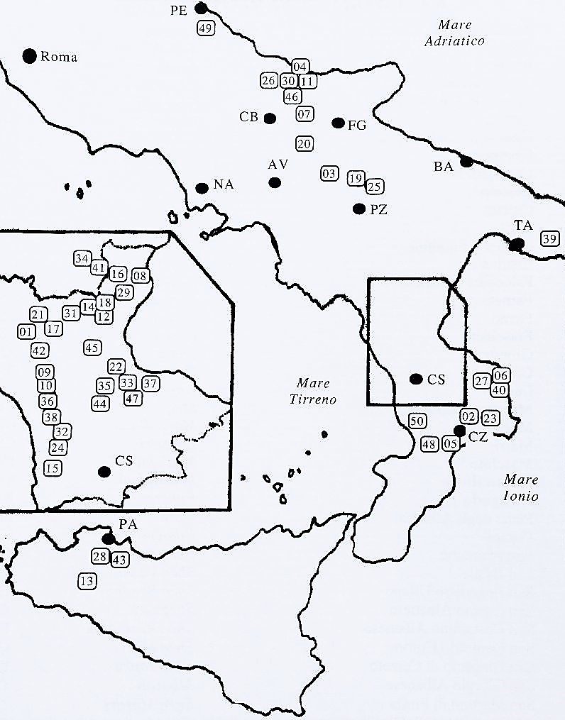 Le comunità albanofone d'Italia / Katundet arbërishtfolësë (The communities speaking the Albanian language in Italy)